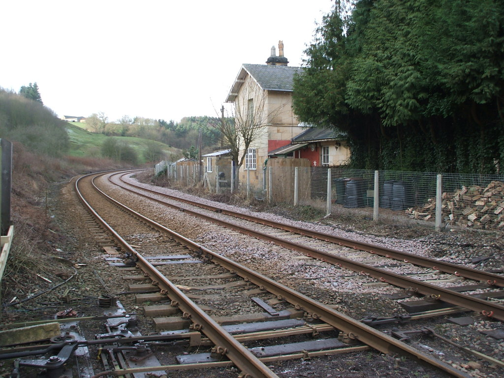 Kirkham Abbey railway station (site), YorkshireOpened in 1845 by the York & North Midland Railway on its line from Scarborough to York, the station closed to passengers in 1930. View north west from the level crossing towards Malton and Scarborough - the line snakes its way through the Derwent Valley.